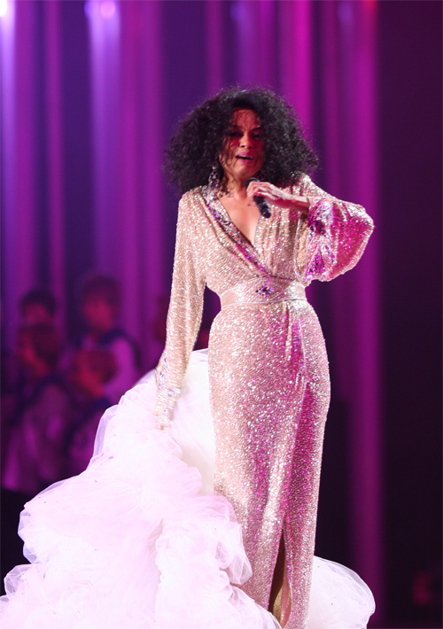 Nobel Peace prize Concert 2008, Oslo Spektrum, Diana Ross